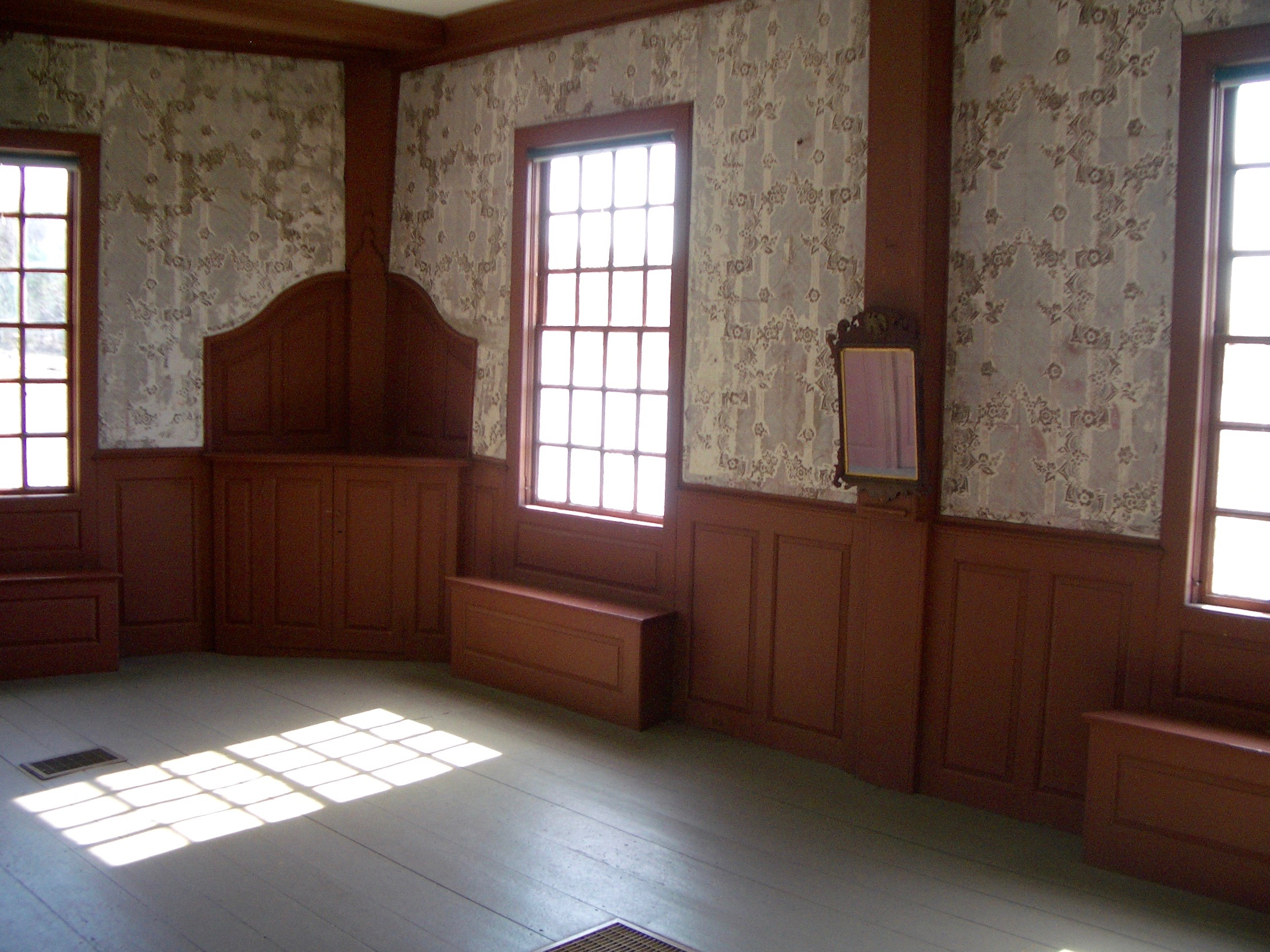 Wentworth-Coolidge Mansion, long room in formal wing, showing corner buffet, one of five originally in the house. Late eighteenth-century wallpaper with glitter.